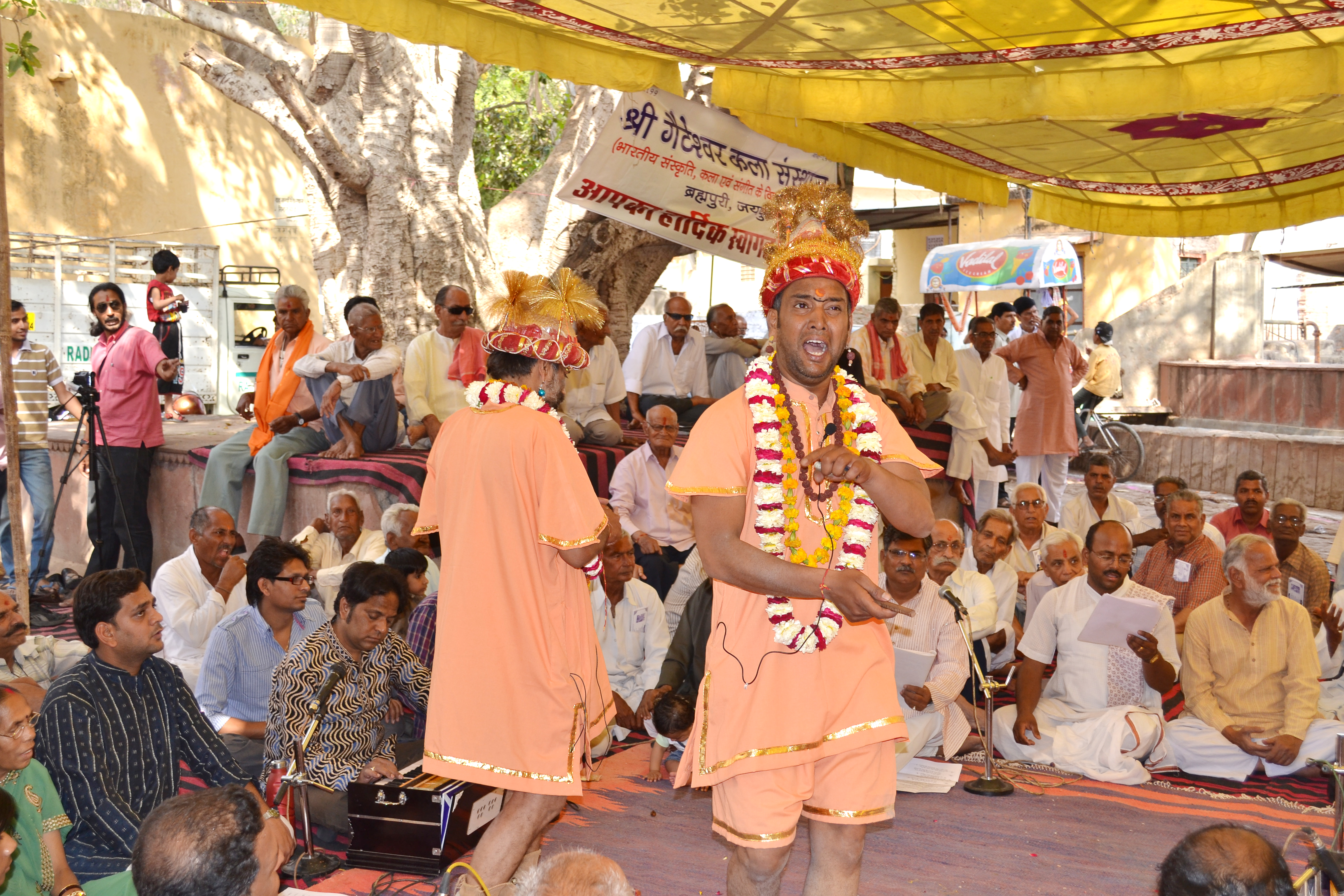 Live Performance Dr Saurabh Bhatt and dilip bhatt